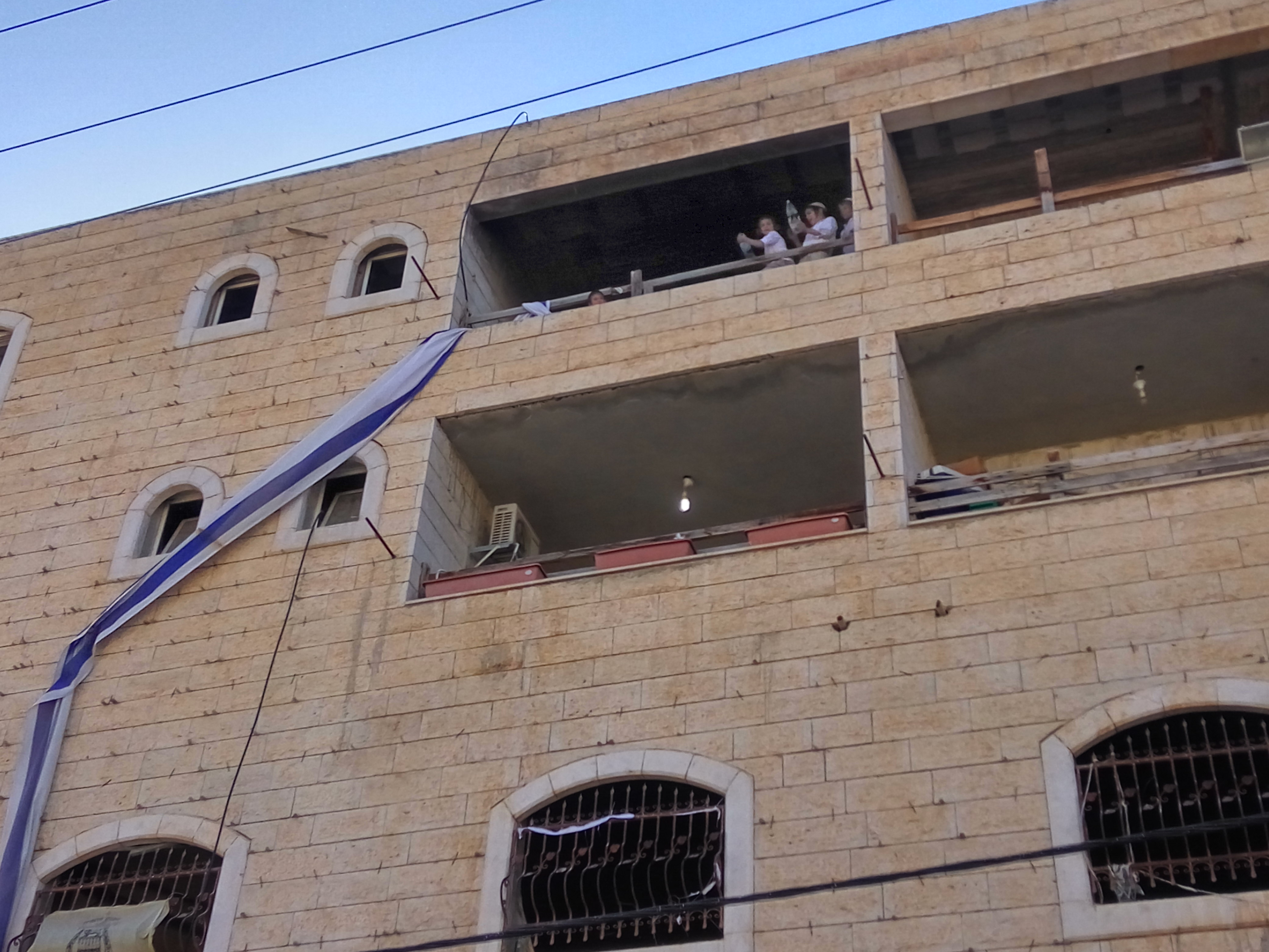 Settler's children in Rajabi house ("peace house")